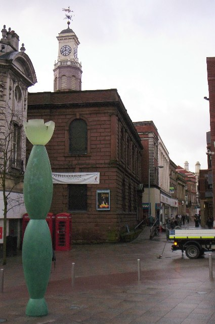 Holy Trinity Church, Warrington. 1760. Architect: J. Meredith OR J. Gibbs. The green column is one of the "guardians" (locally known as the skittles) designed by American sculptor Howard Ben Tré as part of the town centre's public art.